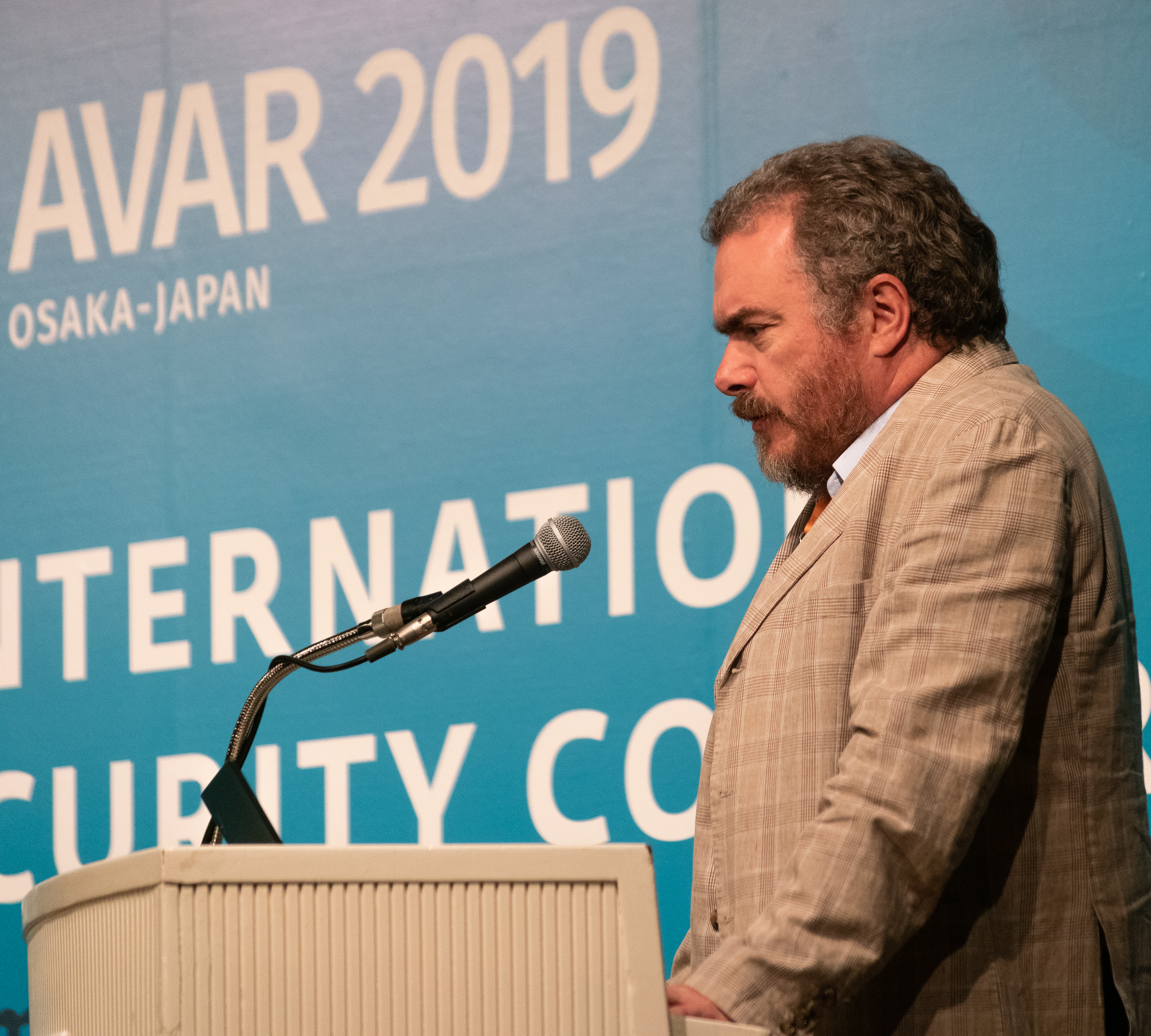 Paul Vixie gives the keynote presentation at AVAR 2019 in Osaka, Japan